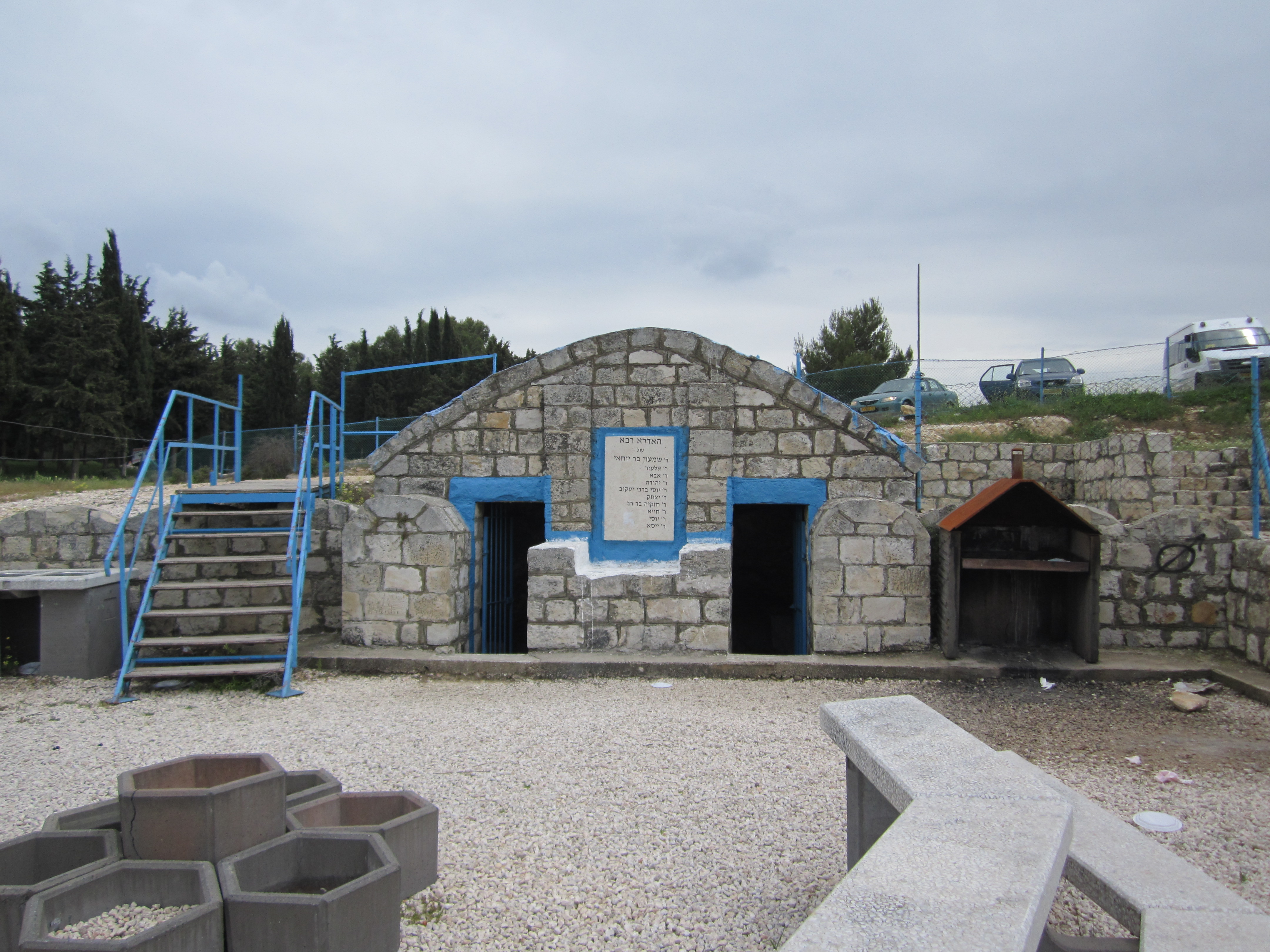 idra tomb from the outside